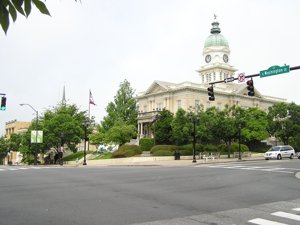 Photograph taken by Richard Chambers of a street scene in Athens. Image taken on Sunday morning, May 11, 2008. This image taken on the corner of Washington and College Avenue, looking across College Avenue at what I think is the city hall. The famous double barrelled canon is not visible as it is around the building to the right of this image. In the center is a statue mounted on a pedestal of the spirit of Athens ascending into the air.